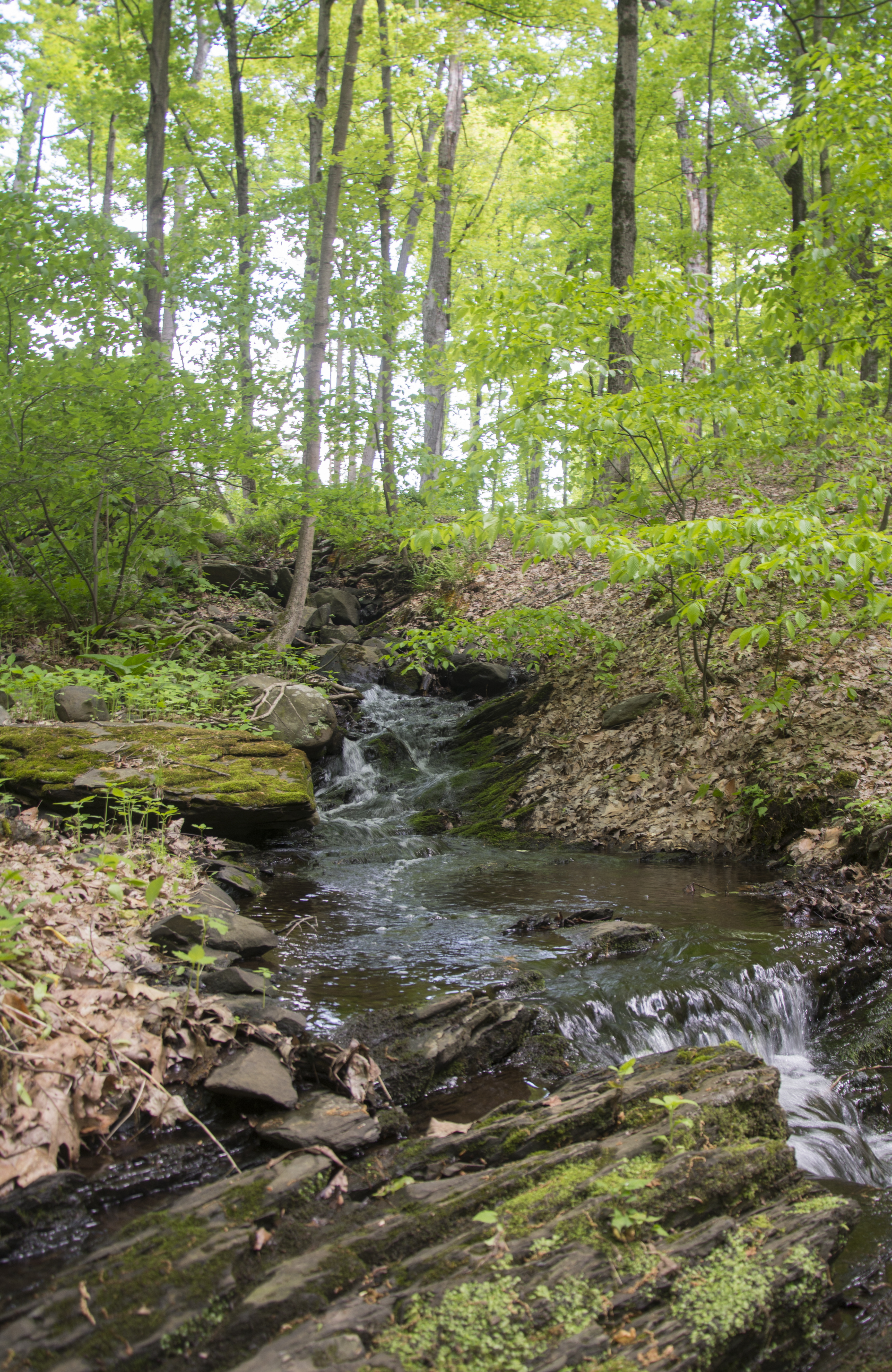 The Maritje Kill, CIA campus, 2017.